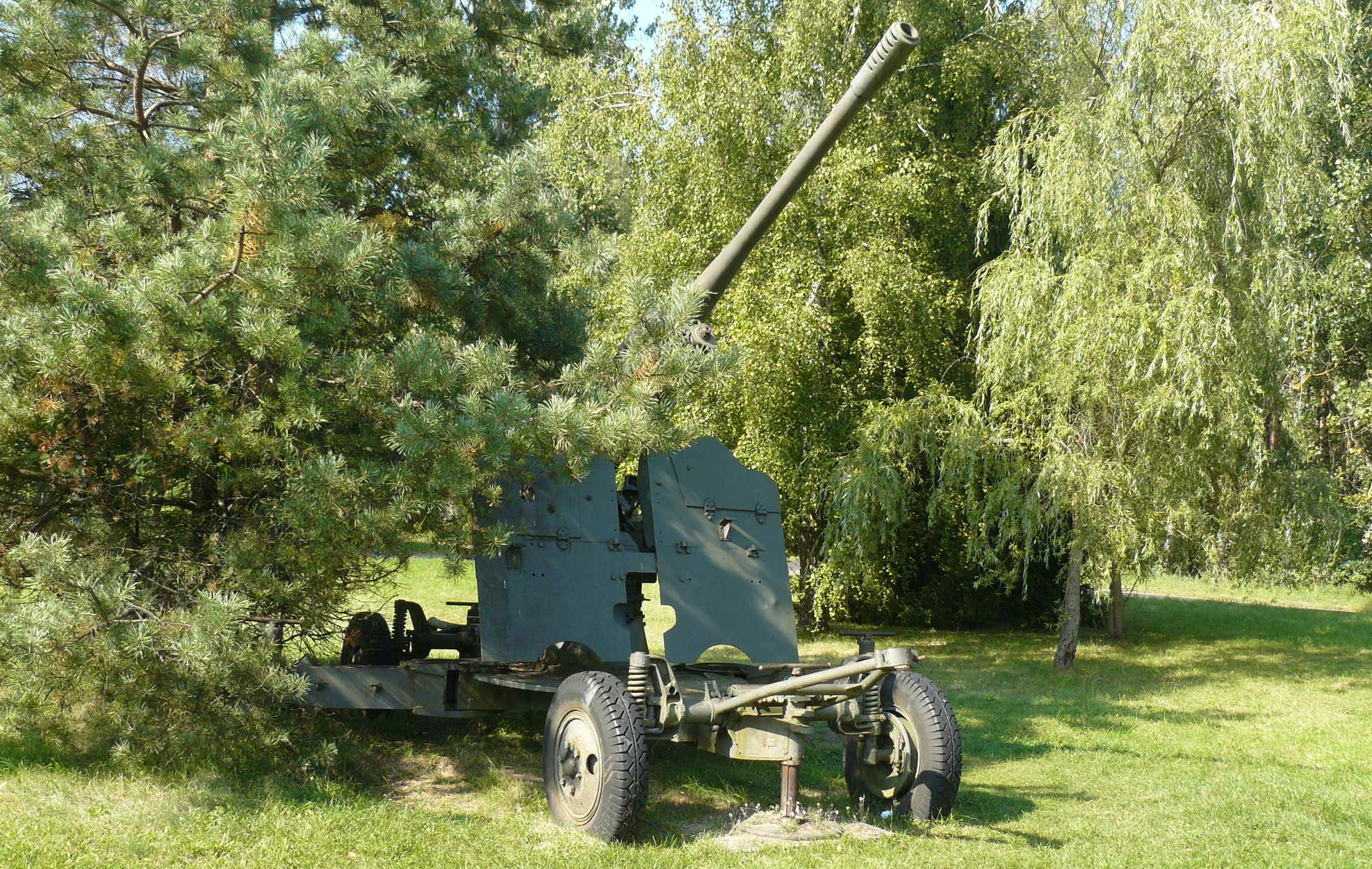 Remains of the open-air museum (WW2) - Zdbice.